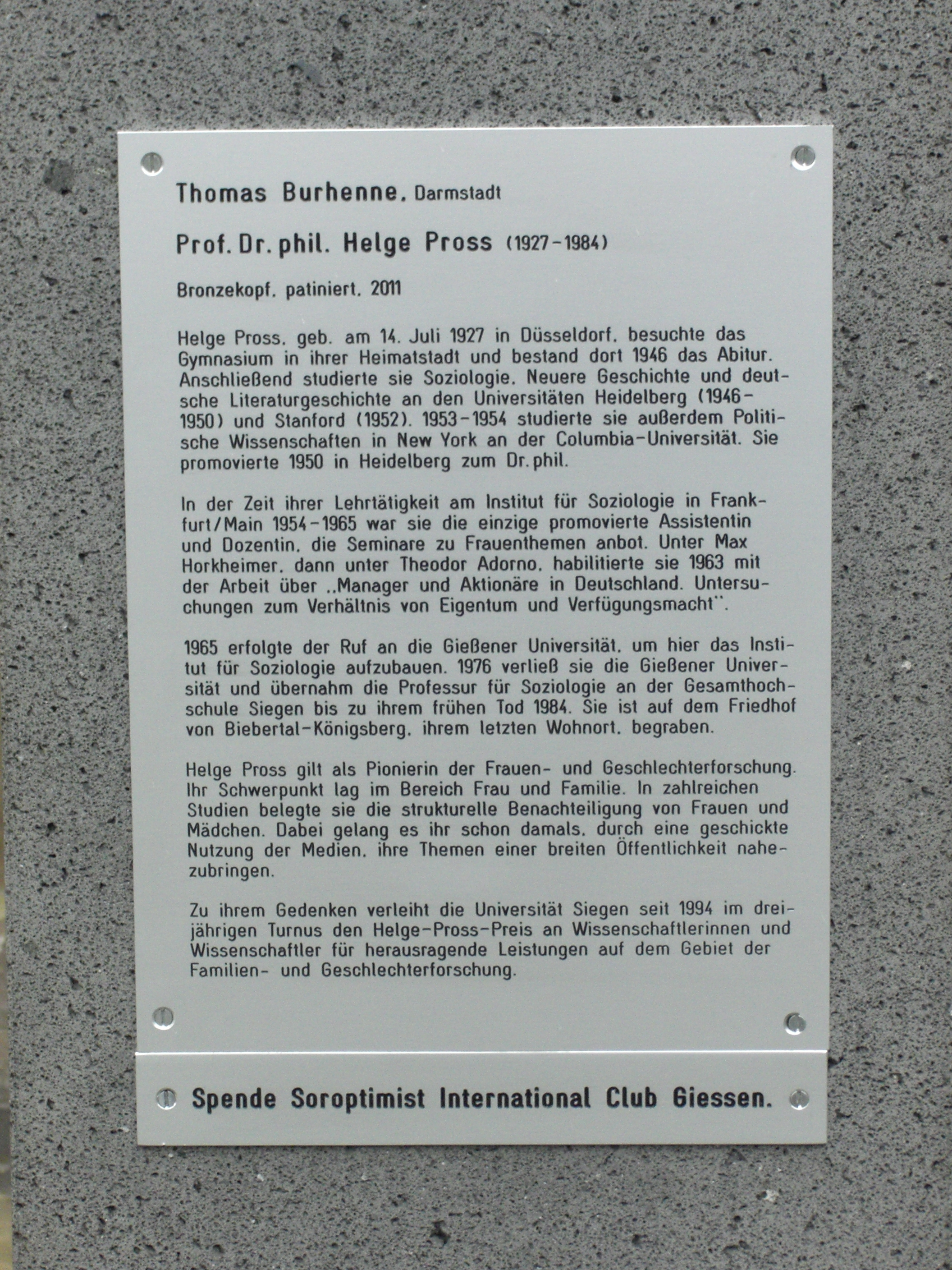 Text board under the bust of Helge Pross giving information about her life (in German), situated at Neues Schloss, Giessen, Hesse, Germany